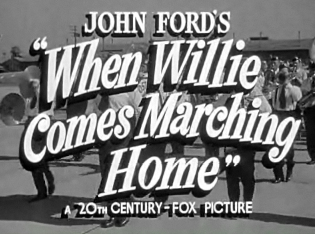 Cropped screenshot of the film title from the trailer for the film When Willie Comes Marching Home